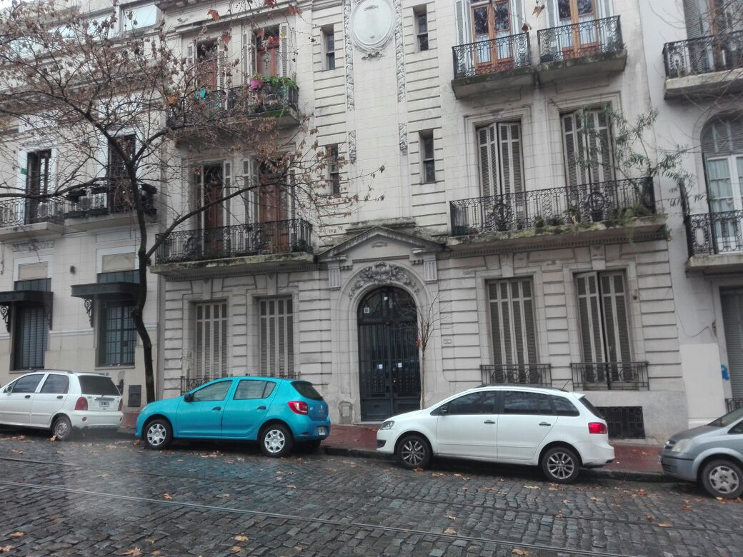 Humberto 1° al 200, Buenos Aires.